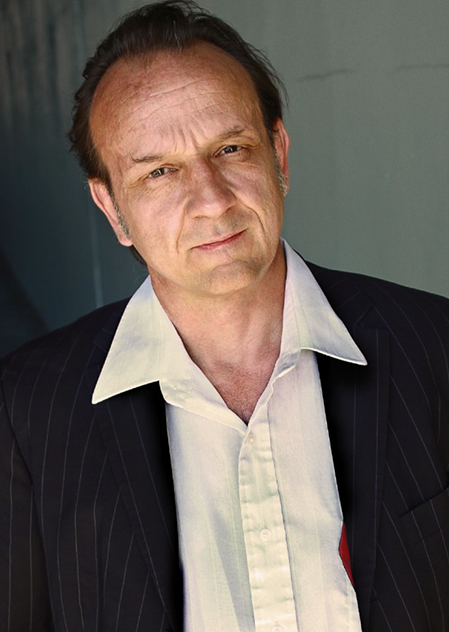 Headshot by Rivka Rivera